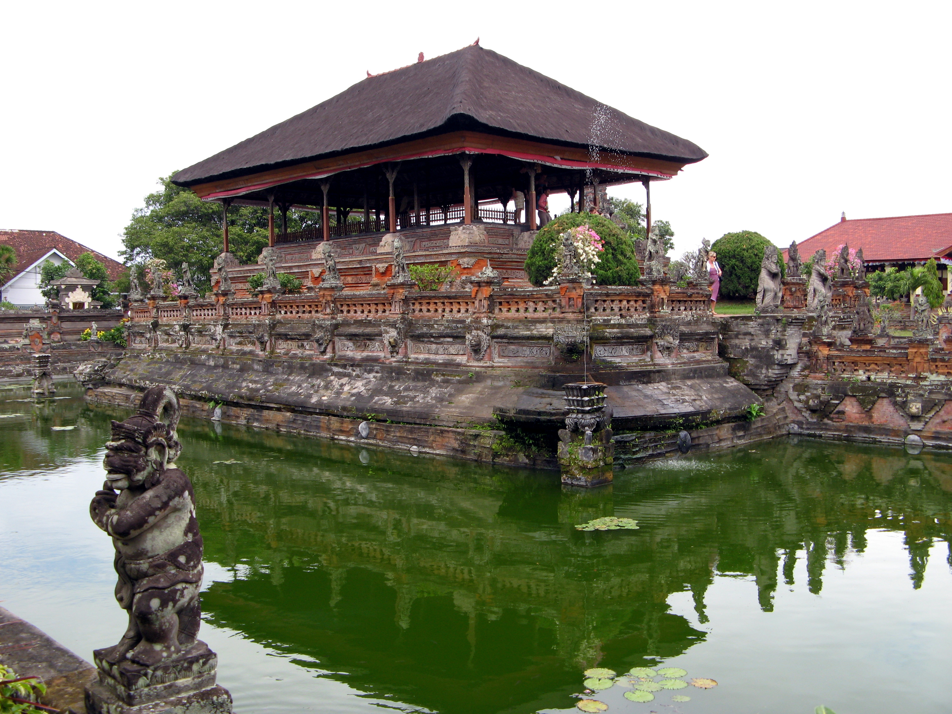 Bale Kambang ("Floating Pavilion"). Taman Gili, Semarapura, Bali. The large moated balé is modern (1940), as are the paintings inside, that illustrate episodes from the Ramayana and Mahabharata. The building's original function is uncertain; guides today describe it as a meeting or relaxation hall.